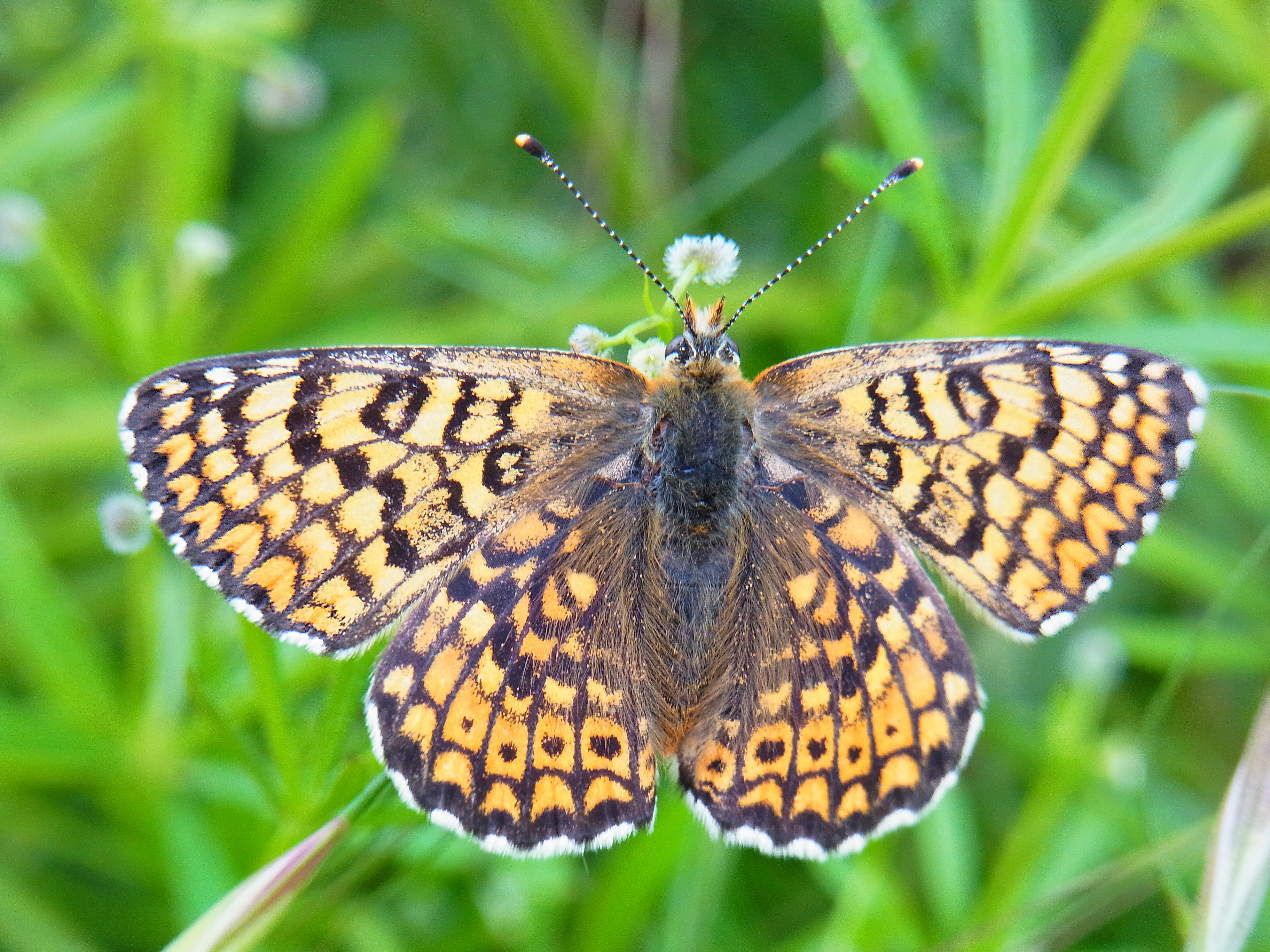 Melitaea cinxia from France, 200 km northeast of Biaritz at 2013-05-13